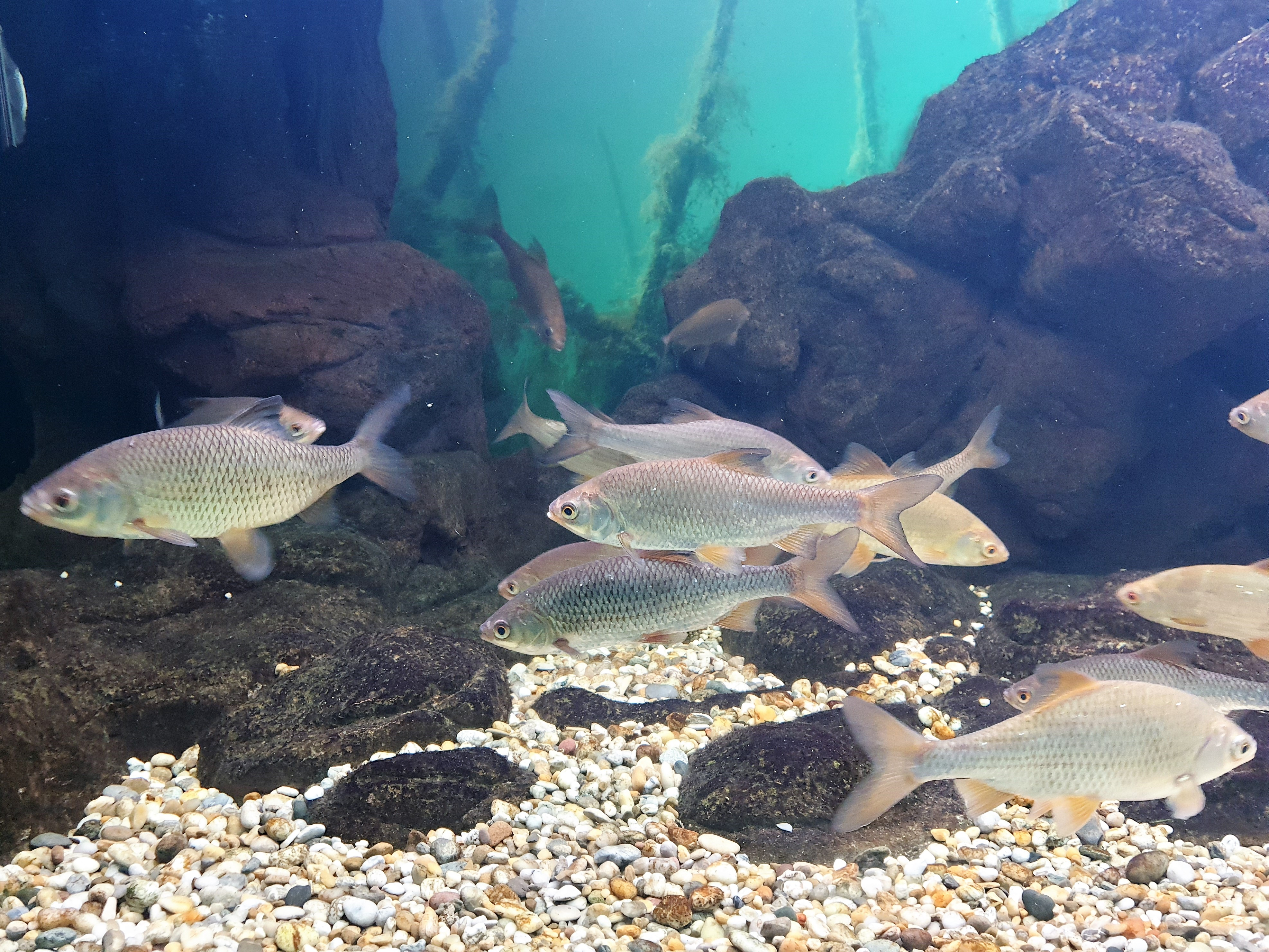 Common roaches (Rutilus rutilus) at the Bodorka Balaton Aquarium in Balatonfüred, Hungary.